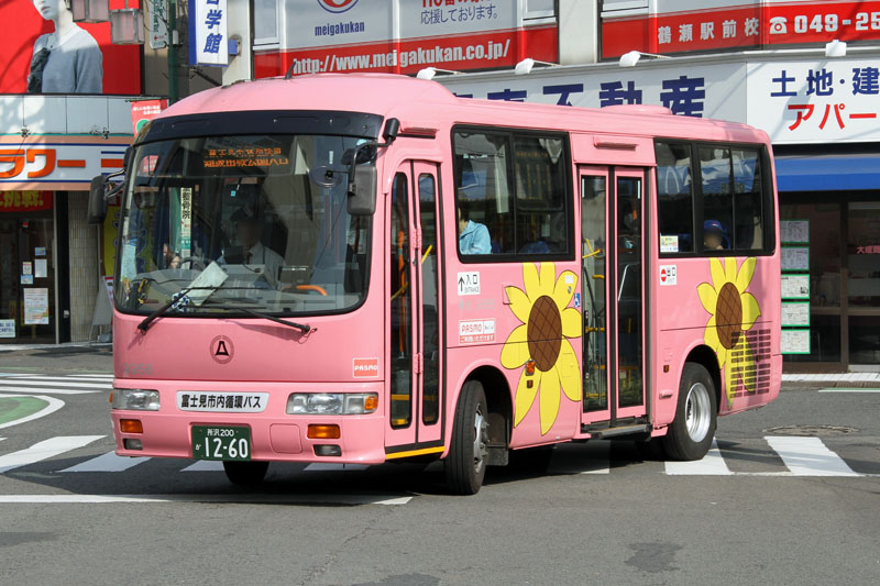 Fujimi City Circulation Bus "Fureai-go" 富士見市内循環バス「ふれあい号」